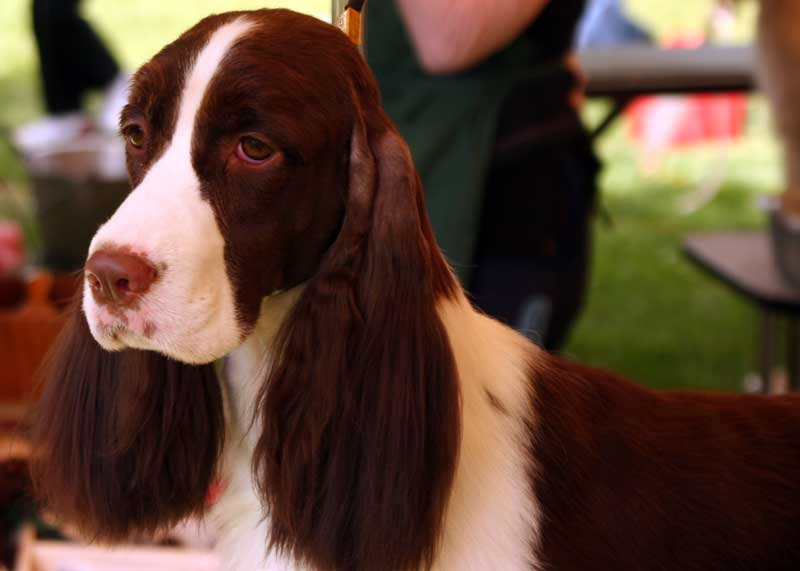 An English Springer Spaniel in show coat.